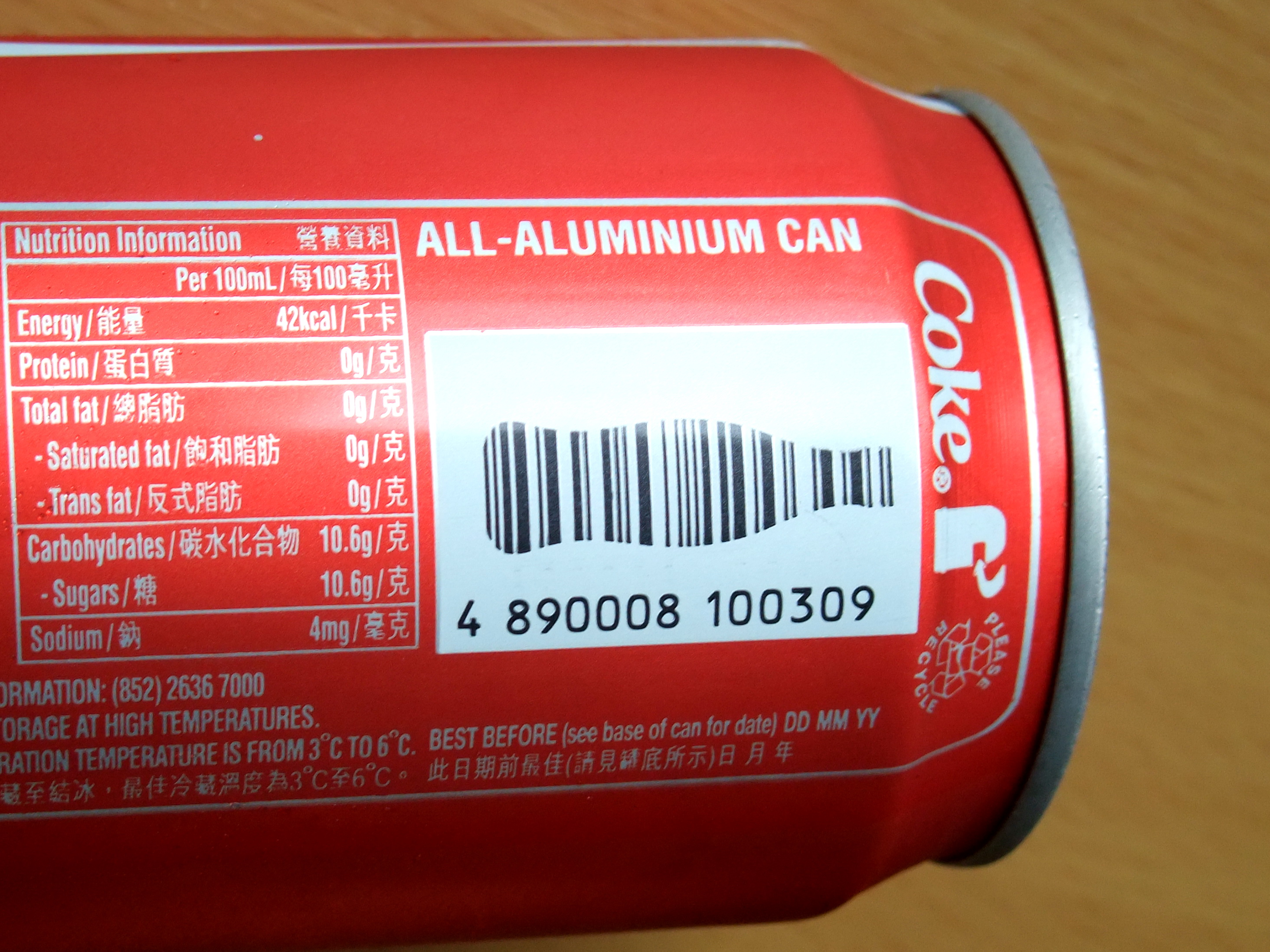 Coke-bottle-shaped barcode on a Coke can.